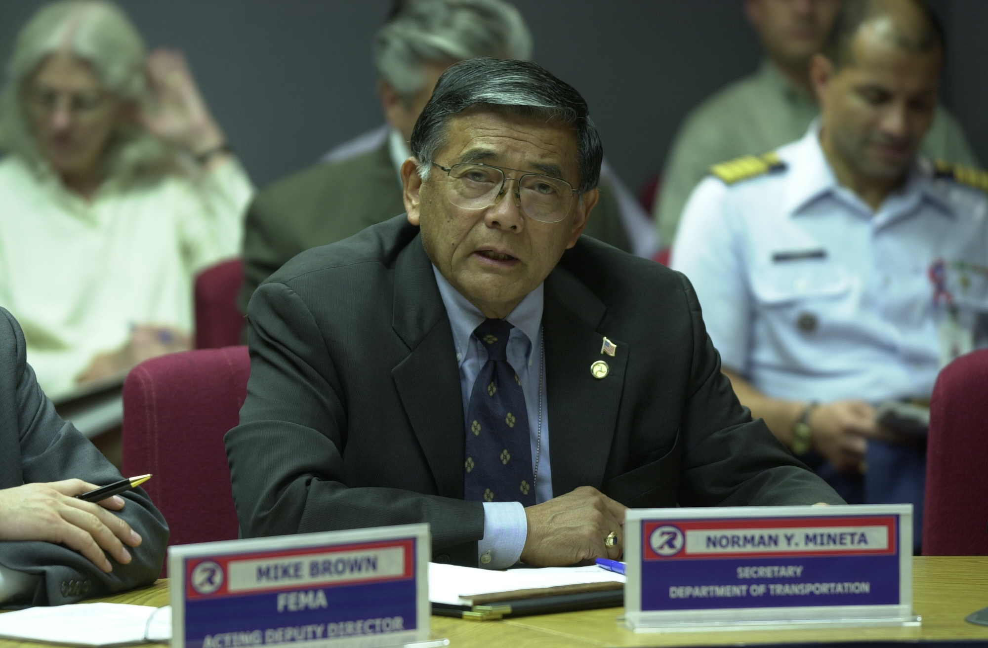 Washington, DC, September 21, 2001 -- Norman Y. Mineta, Secretary of Transporation, attends a meeting at FEMA HQ. Photo by Alex Plummer/ FEMA News Photo